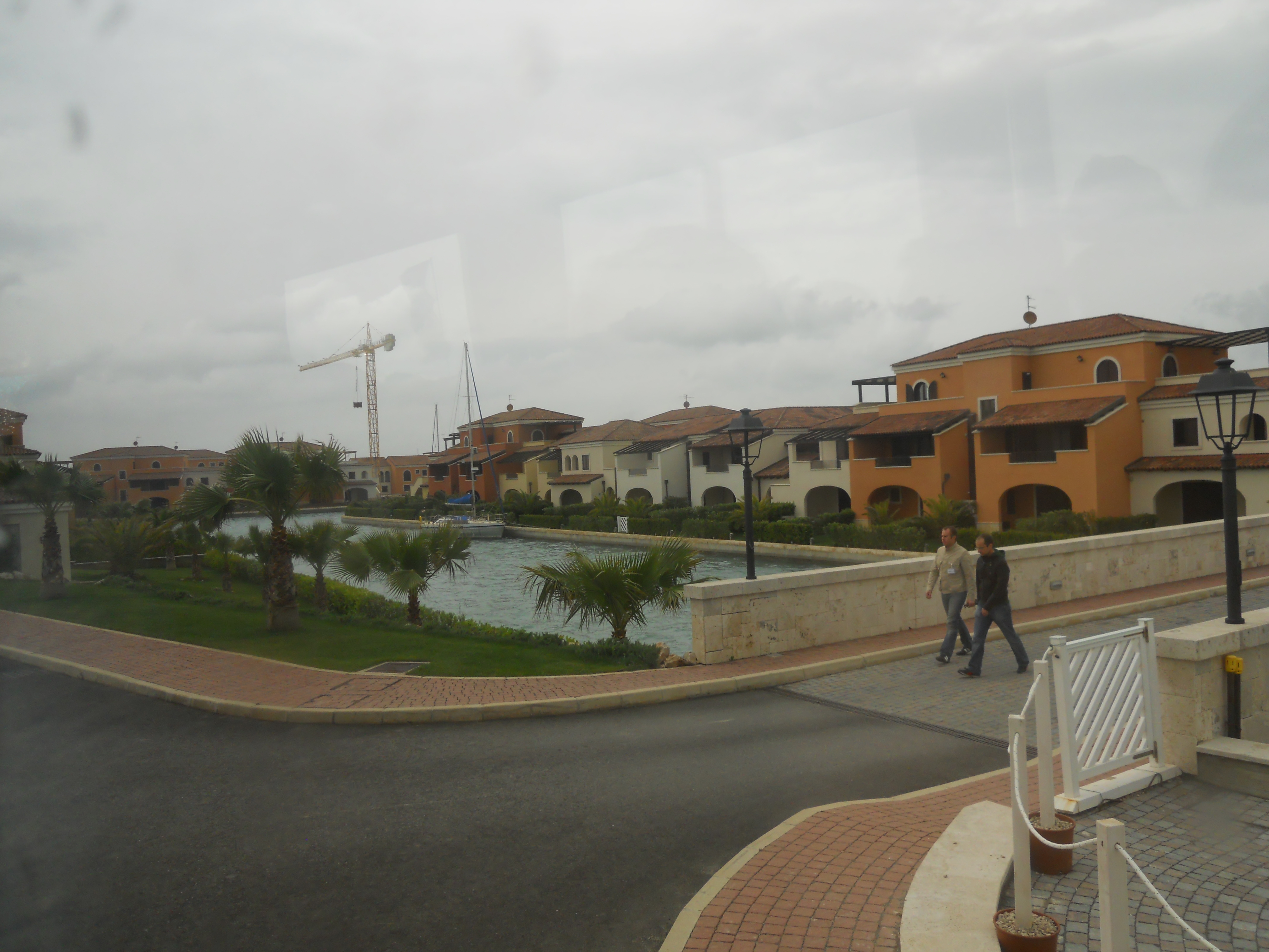 Turistic port of Policoro, Italy